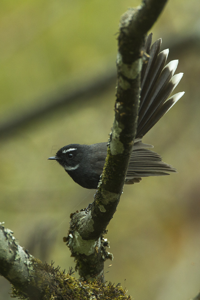 White-throated Fantail - Bhutan_S4E0286